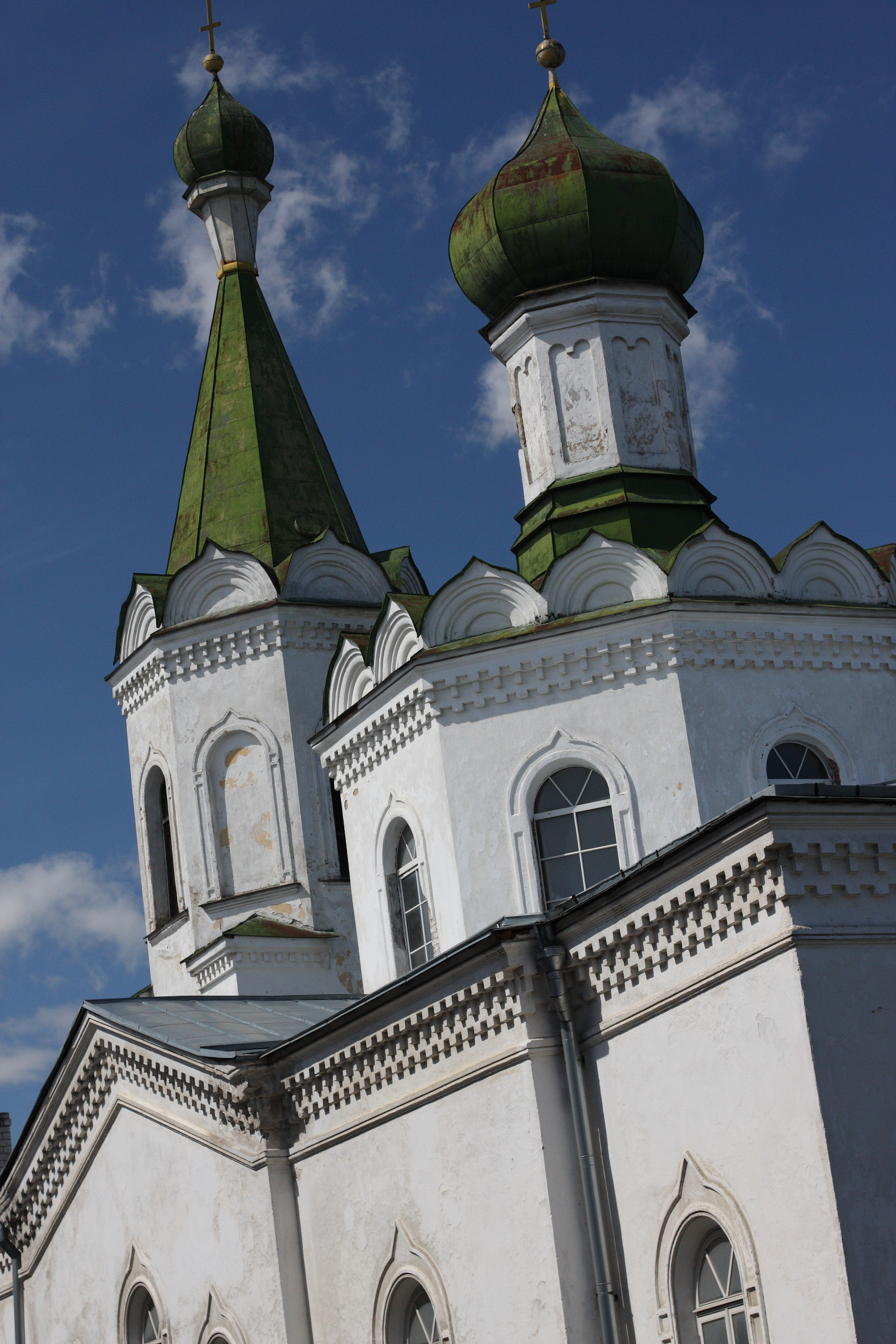 Rakvere orthodox church